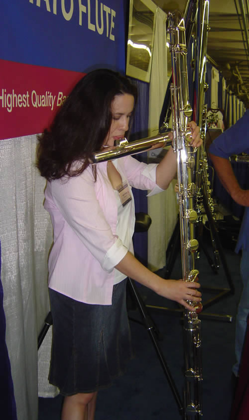 American flutist Maria Ramey playing a Kotato contrabass flute. Photo taken at a flute convention. Contents 1 Permission 1.1 Email requesting permission 1.2 Email granting permission 2 Licensing 3 Original upload log Permission Email requesting permission From: Wikipedia user: Badagnani To: Maria Ramey Date: Monday, December 22, 2008 4:26 AM Subject: Your double contrabass flute photo Hello, I am one of the thousands of volunteer editors at Wikipedia, where I write and edit various music-related articles. I wrote several on the very low flutes and have had links on at least two of them to photos in which you play them, but we never had any photos of people playing them. I am wondering if you might allow the photos of you playing the double contrabass and subcontrabass (double contra-alto) to be used here, as the representative photos of these instruments: As per Wikipedia's rules, the only specification would be that the photographer agree to release the photo under a "free" license such as the Creative Commons, which would allow the photo to be reused by anyone who finds it at Wikipedia, for any purpose (although the photographer would always have to be credited, and there would be a link to your website). Wikipedia is now the eighth most visited website in the world, so I think it would serve a good educational purpose, and you'd get a lot of views. Would you please let me know if that would be okay with you? Many thanks and best, Wikipedia user: Badagnani Kent, Ohio Email granting permission From: "Maria Ramey" To: Wikipedia user: Badagnani Date: Monday, December 22, 2008 12:16 PM Subject: RE: Your double contrabass flute photo Hello, Yes, you may use my photo. Let me know if you need to use a different size of the same photo that whatâ€™s on my website currently. Maria Ramey Flute Finds â€“ Gifts and accessories for flutists!